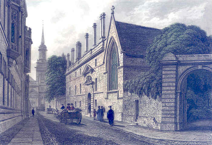 A view of Jesus College, Oxford and Turl Street from "MEMORIALS OF OXFORD By James Ingram DD. President of Trinity College. The engravings by John Le Keux from drawings by F. Mackenzie." (1837)